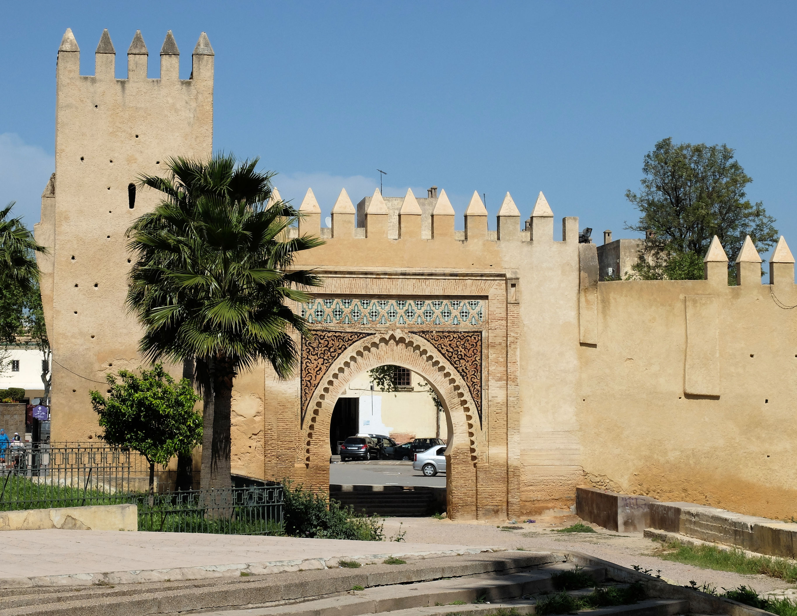 Bab al-Amer, the western gate of Fes el-Jdid.